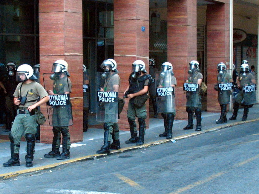 Men of the greek riot police (MAT) on standby for crackdown of an anarchist solidarity demonstration